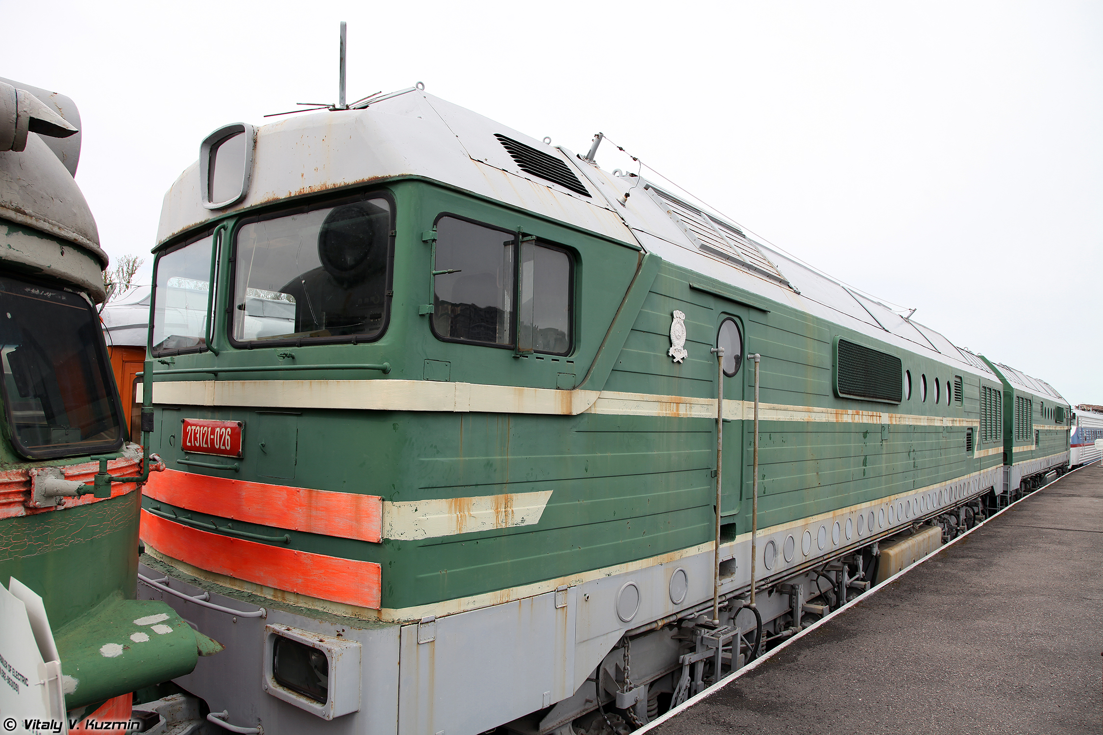 2TE121-026 diesel locomotive